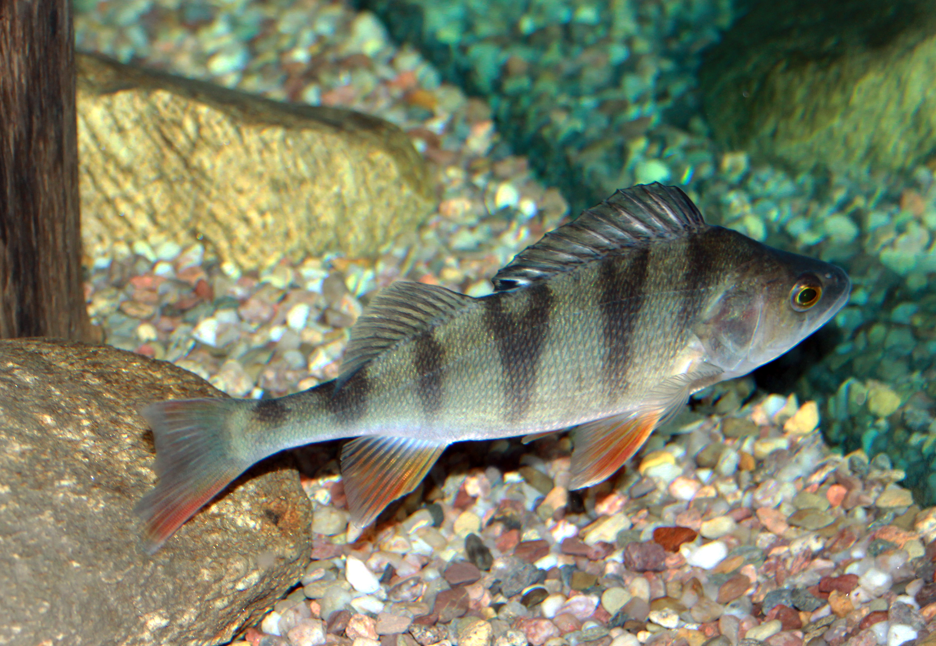 European perch on exhibition Subaqueous Vltava, Prague 2011, Czech Republic